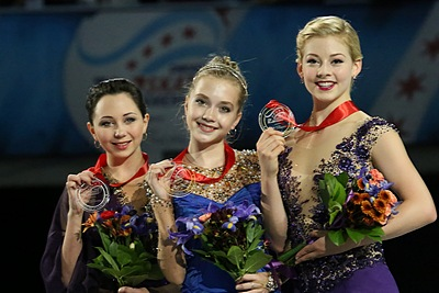 The ladies podium at the 2014 Skate America. From left: Elizaveta Tuktamysheva (2nd); Elena Radionova(1st); Gracie Gold (3rd).